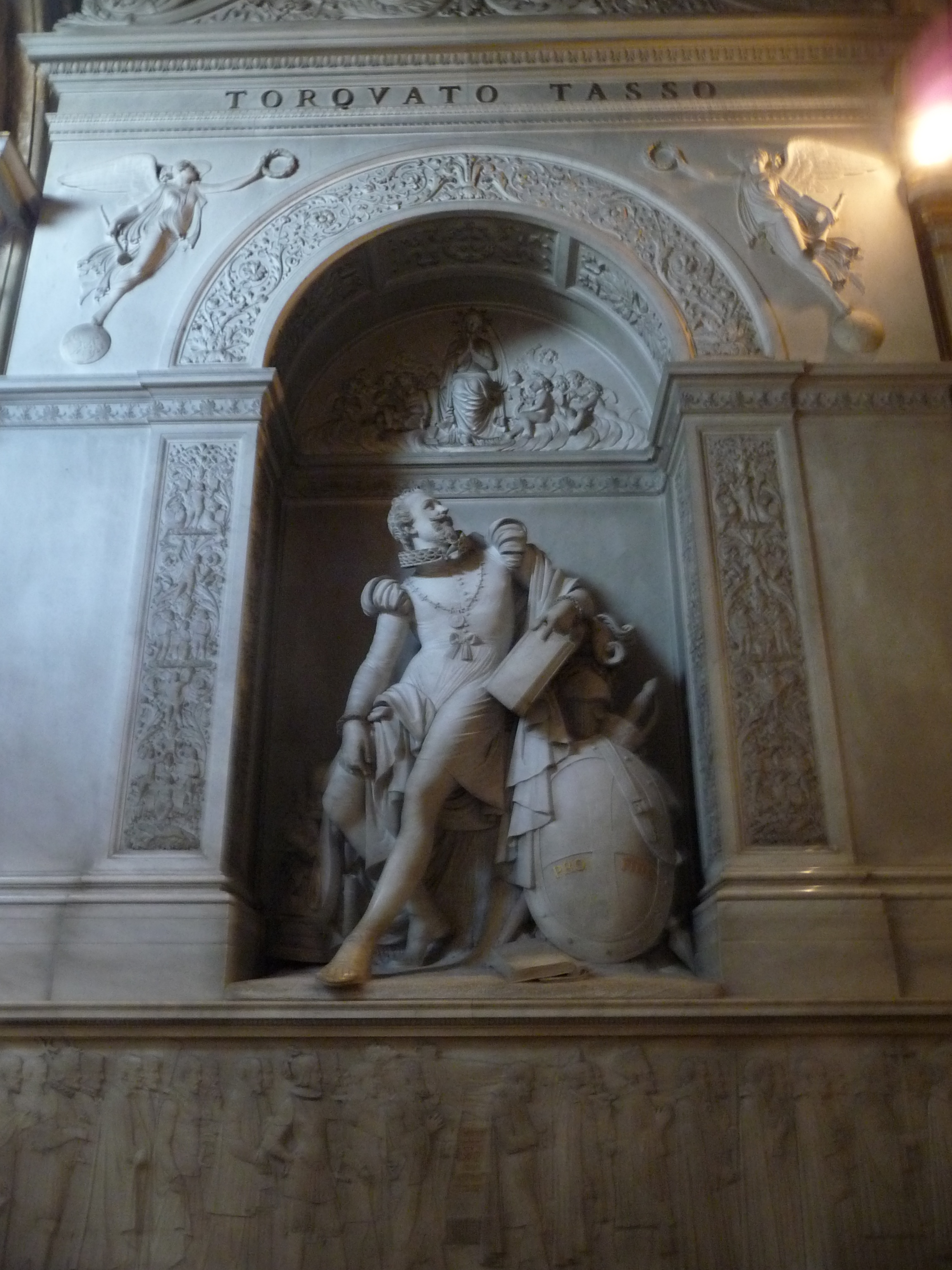 Tomb of Torquato Tasso in Sant'Onofrio al Gianicolo (Rome), Statue by Giuseppe Fabris, 1857.